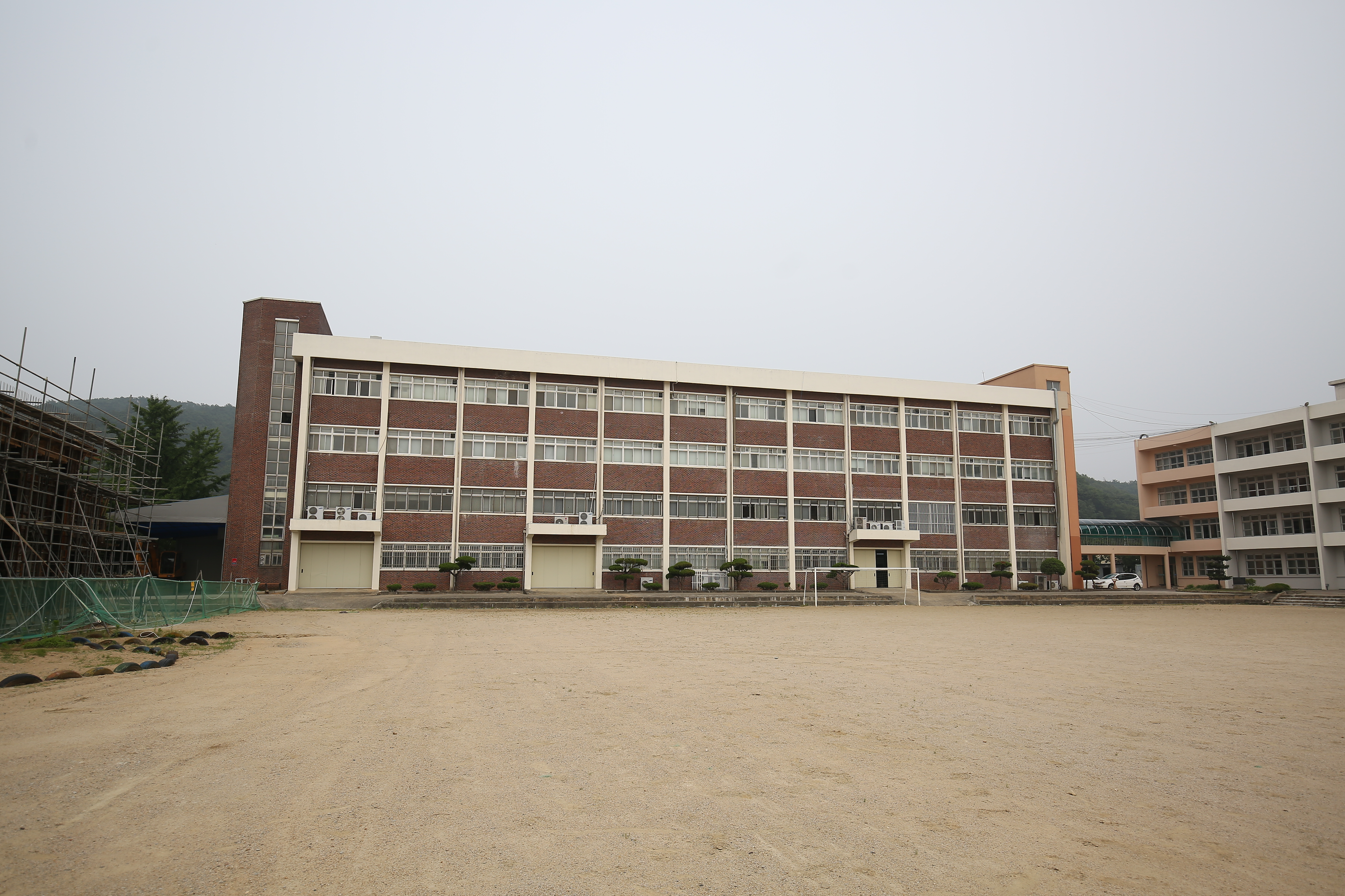 운산공업고등학교